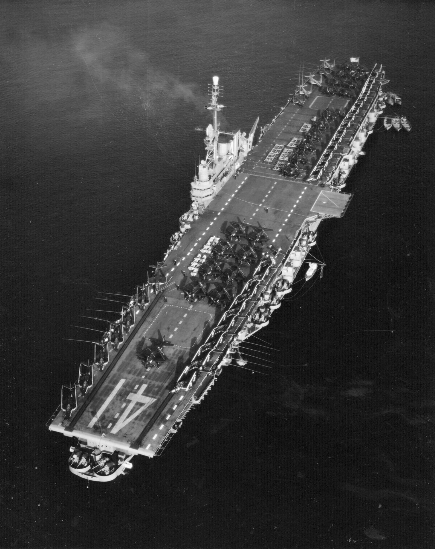 The U.S. Navy aircraft carrier USS Midway (CVA-41) anchored at Gibraltar, in 1954.